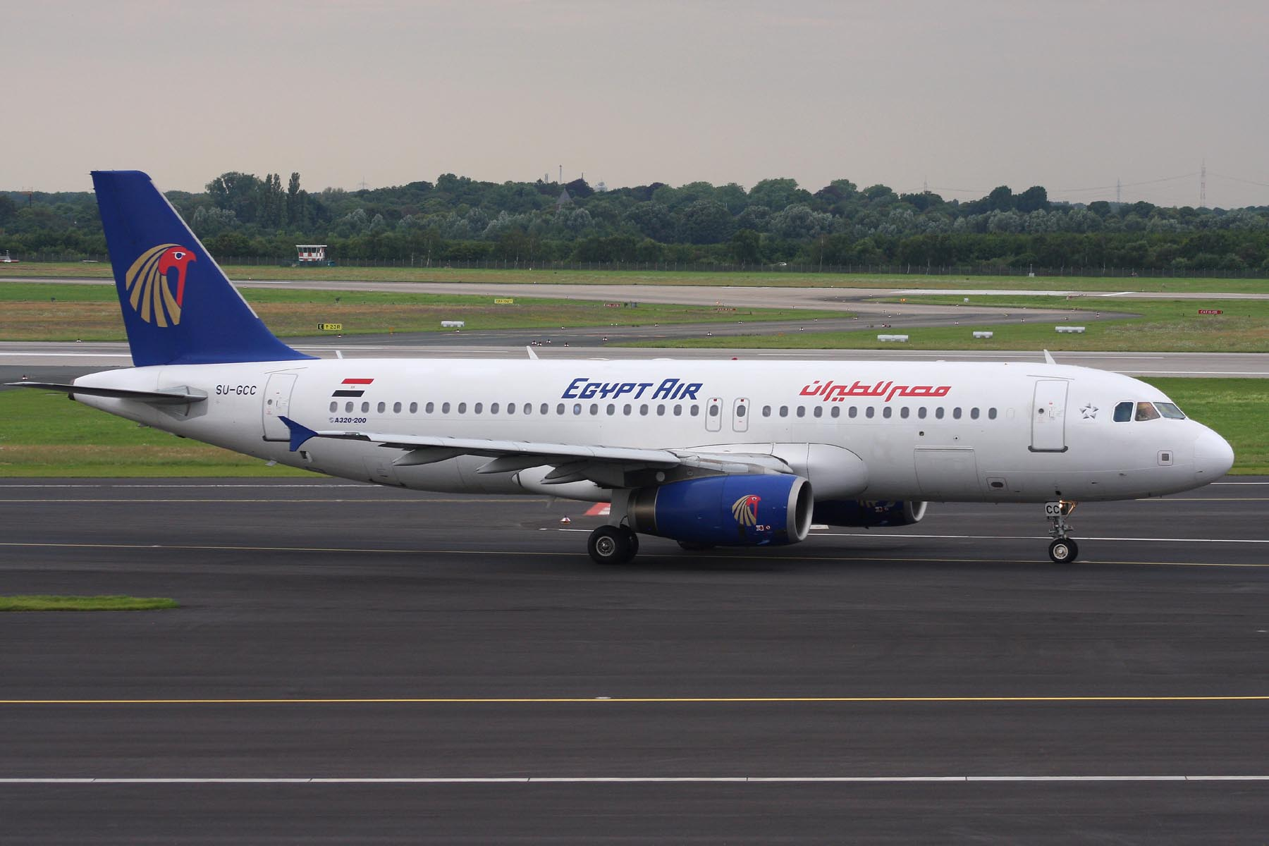 EgyptAir Airbus A320 at Düsseldorf Airport